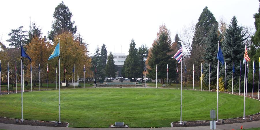 Oregon State Capitol building grounds flag circle